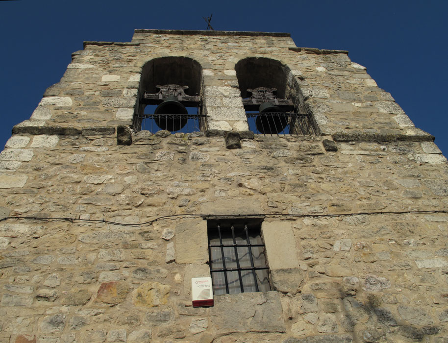 Steeple of St. Marina Church in Bardauri (Miranda de Ebro, Spain)